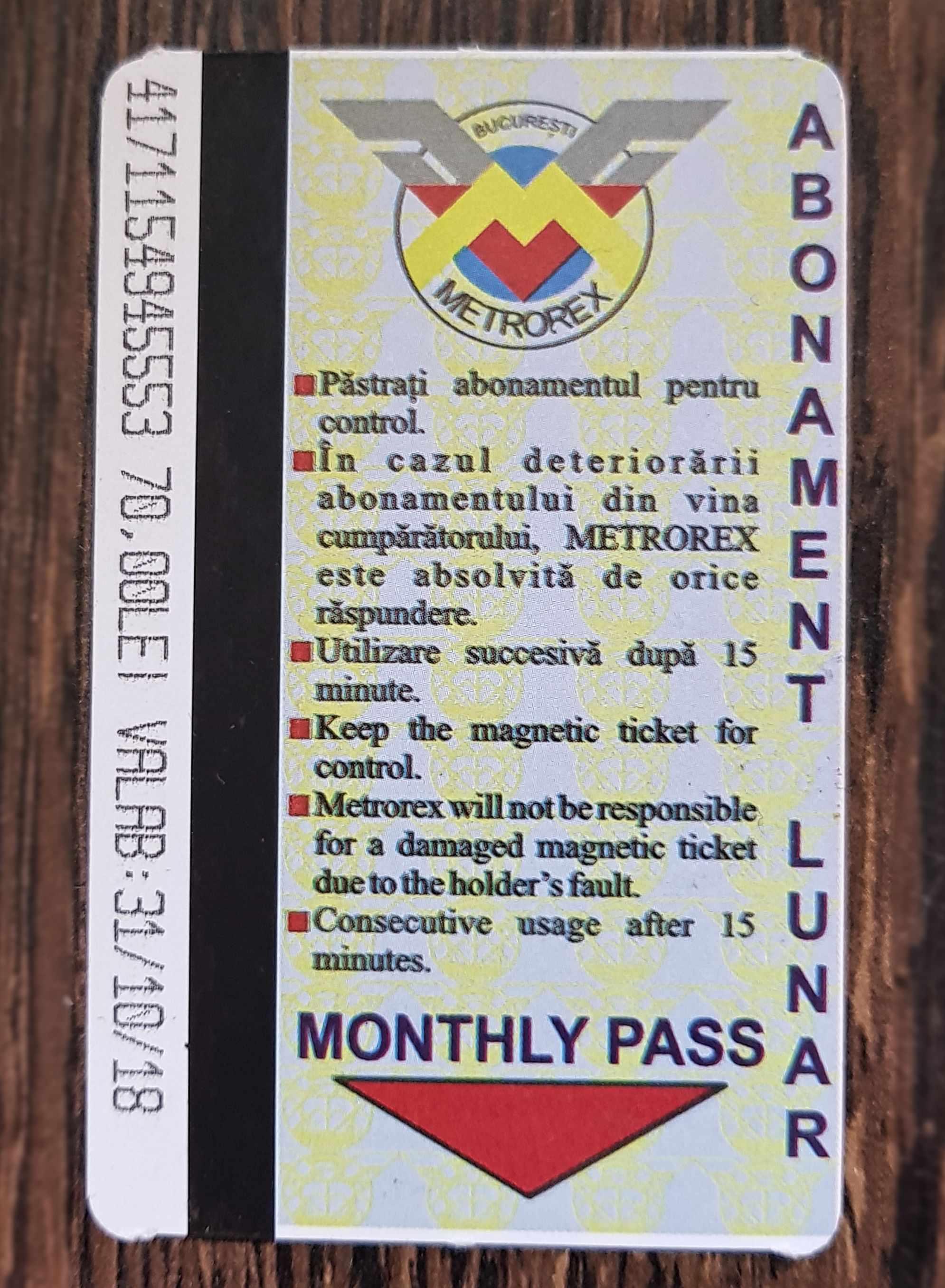 Bucharest Metro monthly pass, 2018